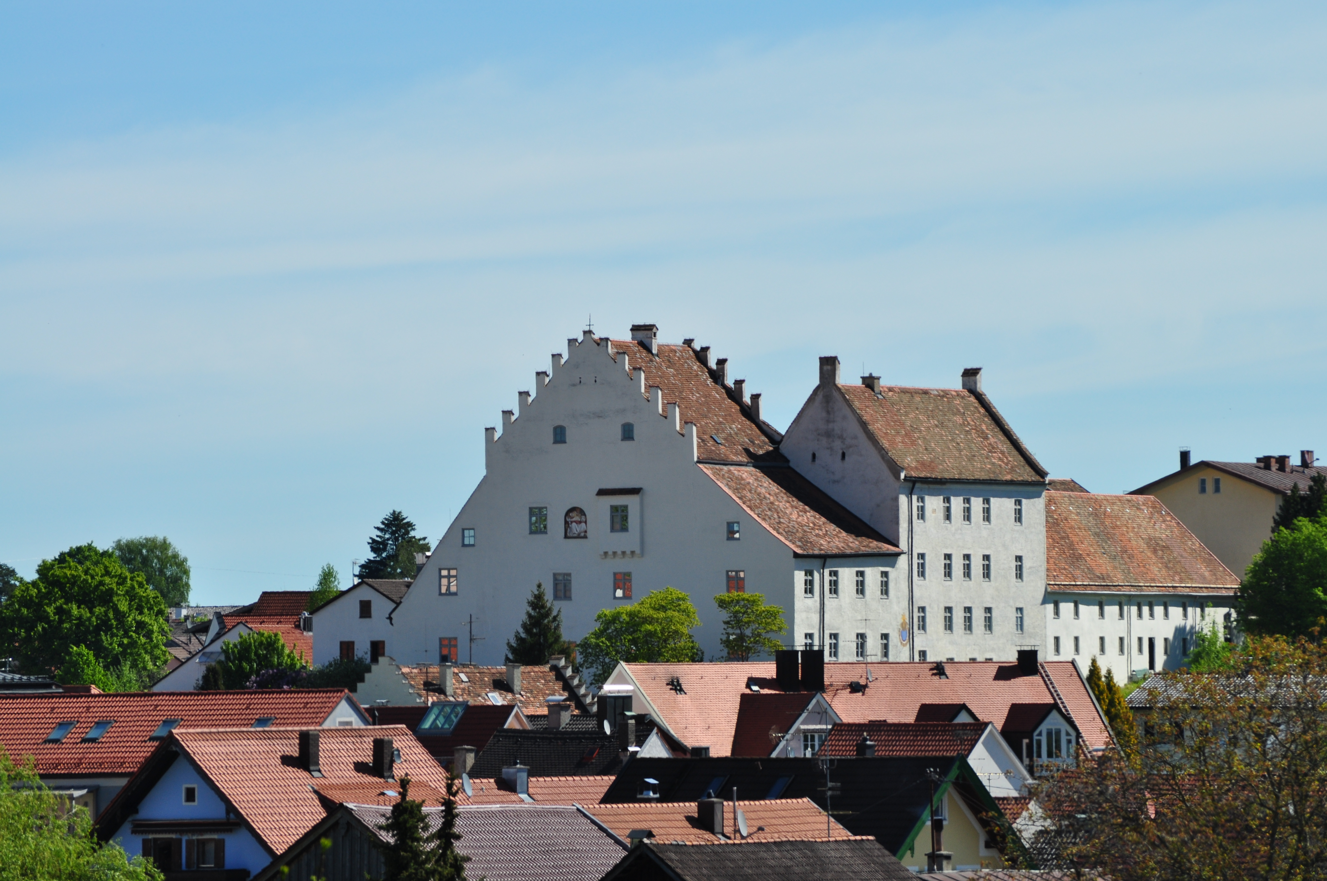 This is a photograph of an architectural monument.